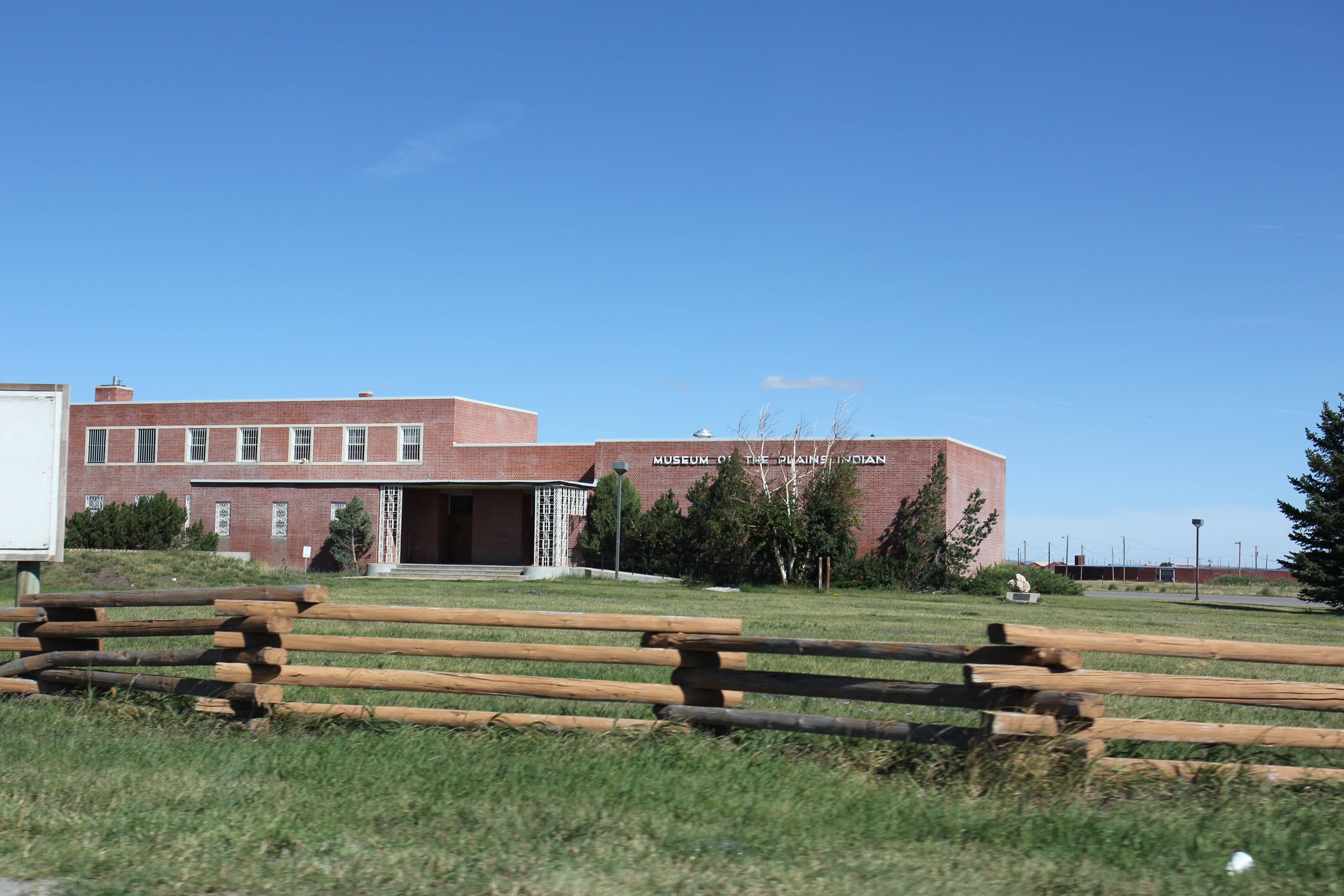 The Museum of the Plains Indian in Browning, Montana.